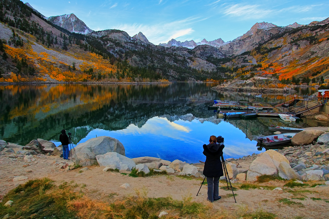 Lake Sabrina before sunrise